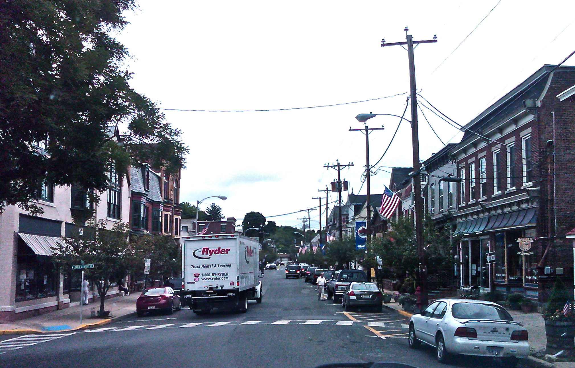 Main Street, Clinton, NJ